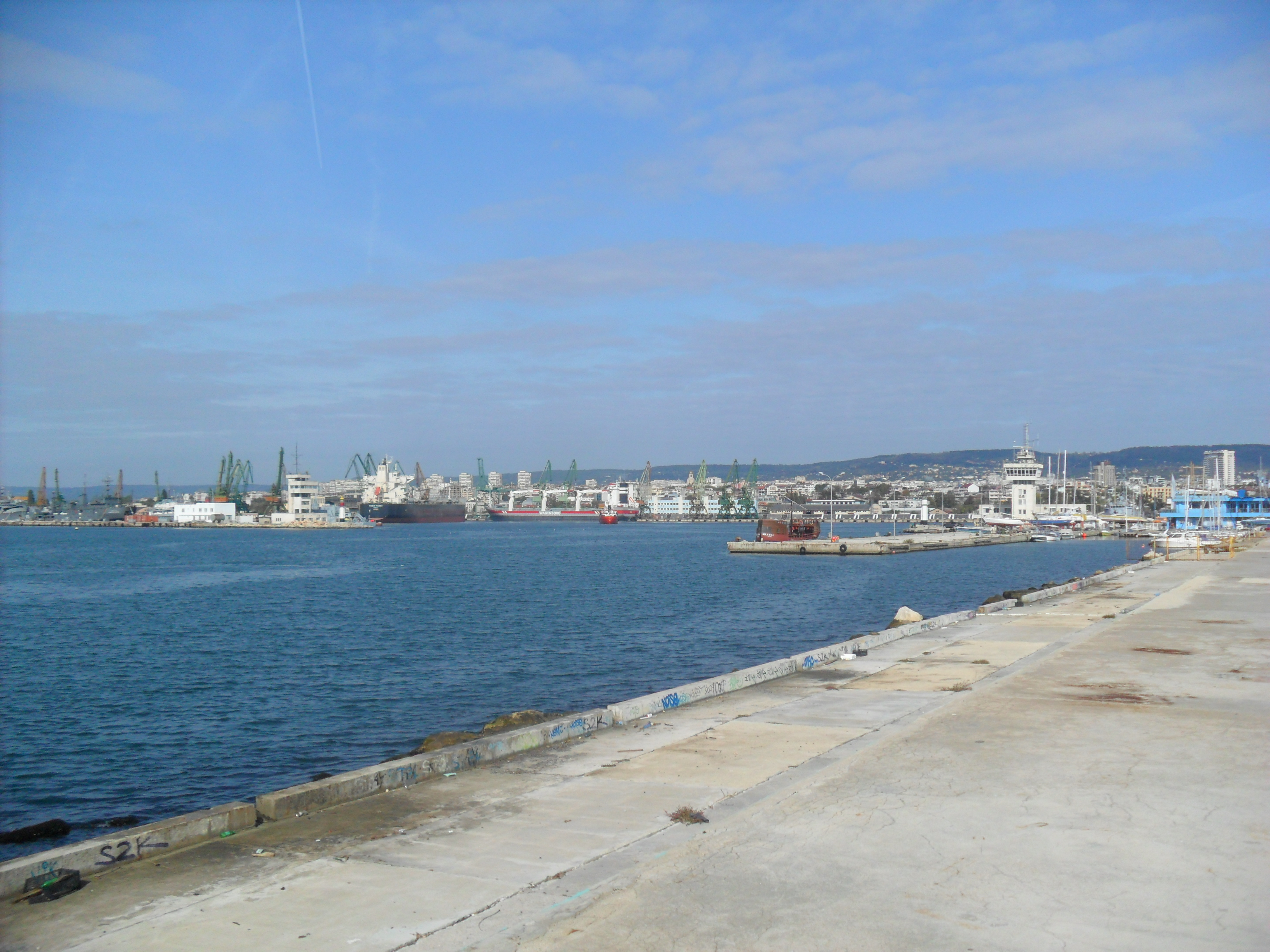 Port Varna,Bulgaria